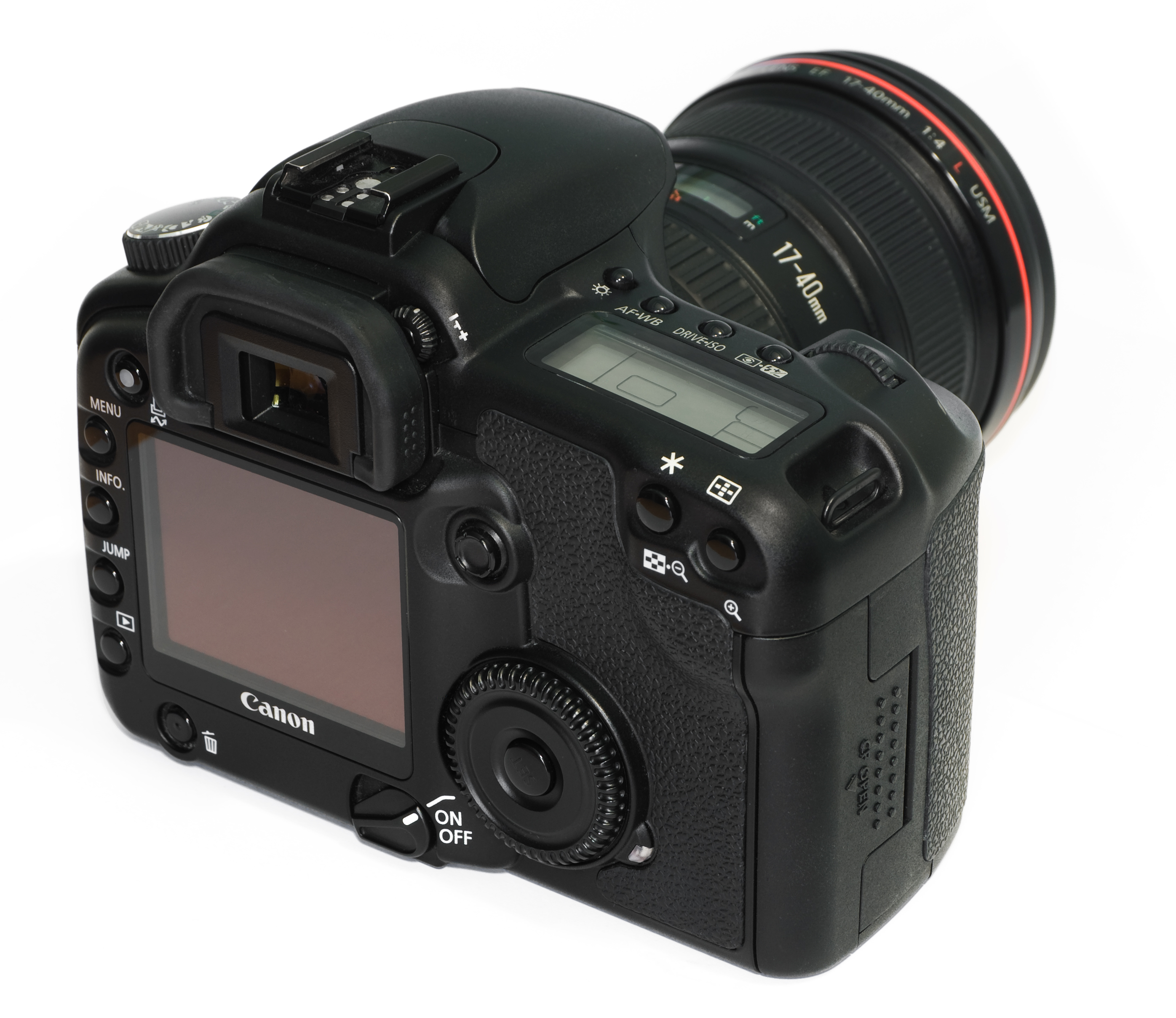 Image of a Canon EOS 30D, with 17-40mm L series Lens attached.